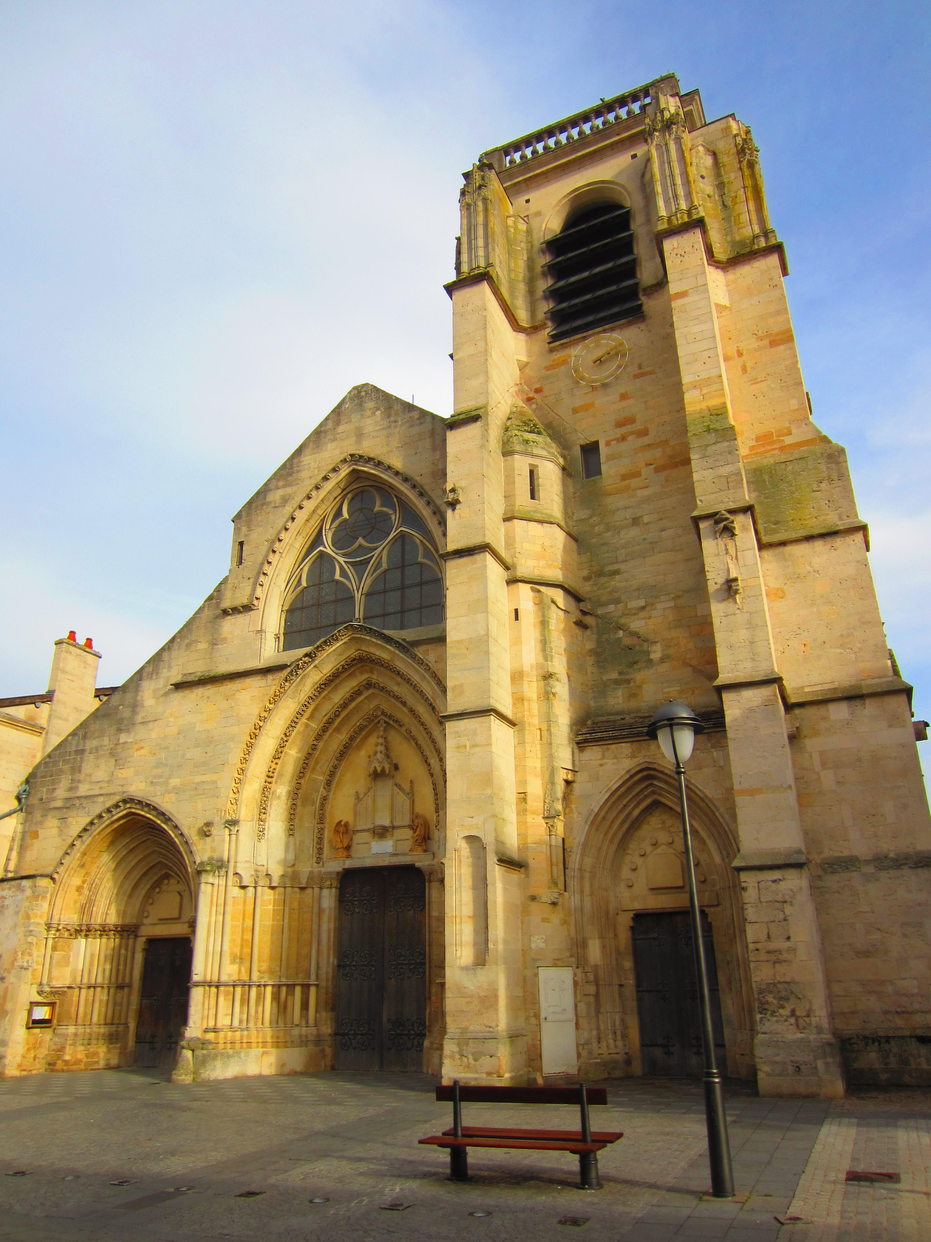 Description eglise Notre Dame Saint Dizier Date9 November 2011Sourcemon appareil photoAuthorAimelaimePermission (Reusing this file) eglise Notre Dame Saint Dizier